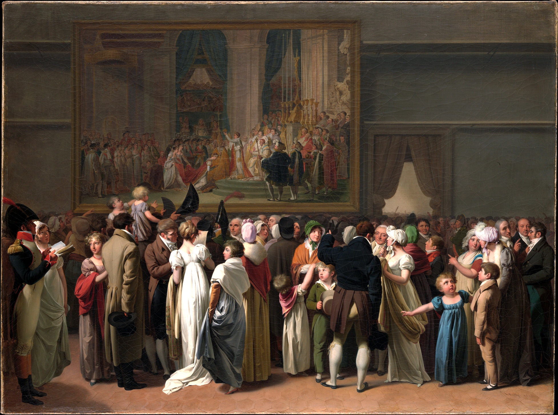 see Catalogue Entry